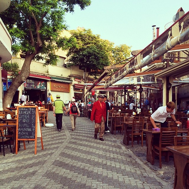 nature #island #buyukada #turkey #restaurants #coffee #princese #tree